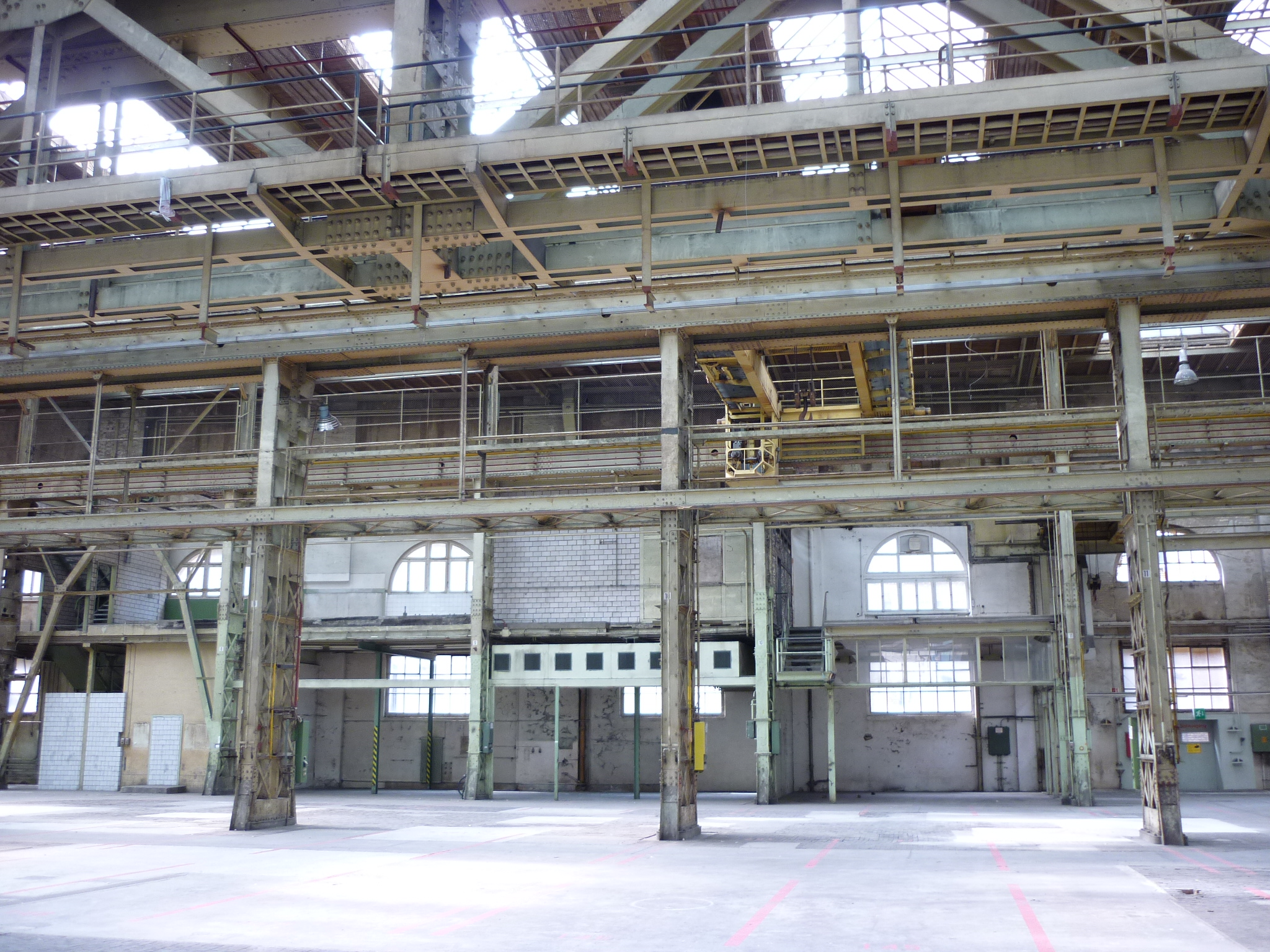 Sulzer Area, Winterthur ZH, Switzerland